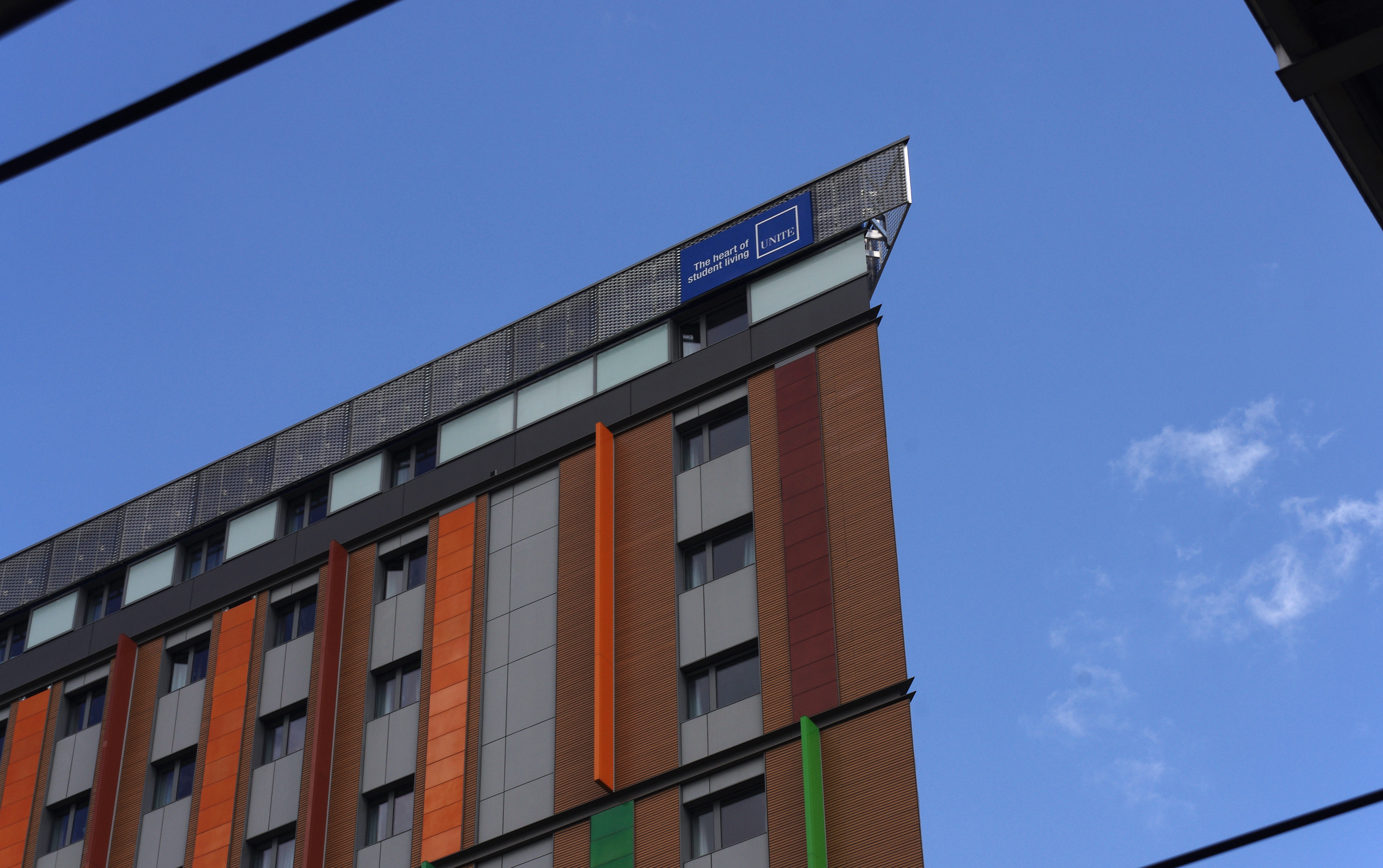 UNITE student accommodation next to Tottenham Hale station.